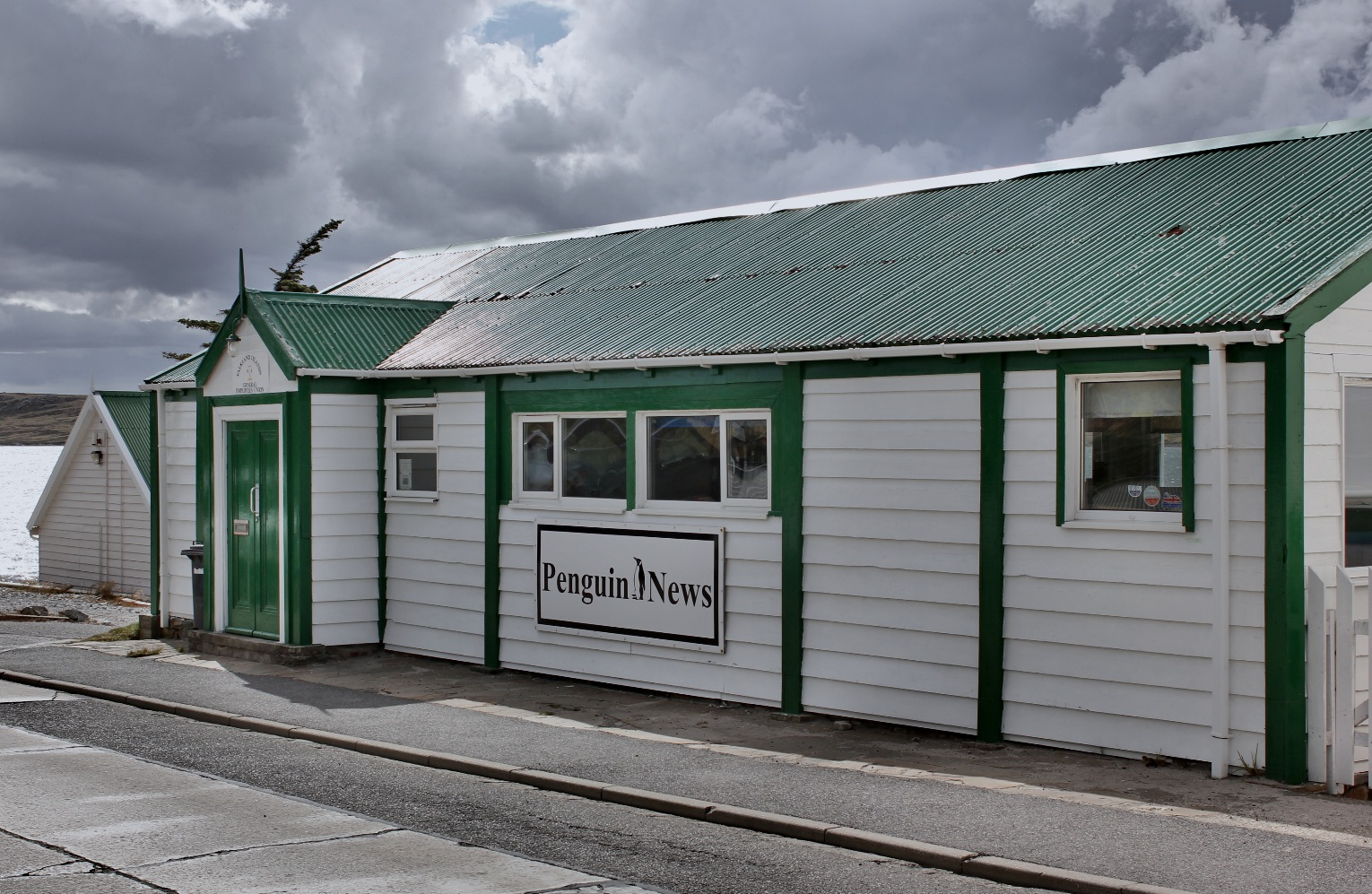 The Penguin News office on Ross Road, Stanley. This is the only newspaper produced within the Falkland Islands.